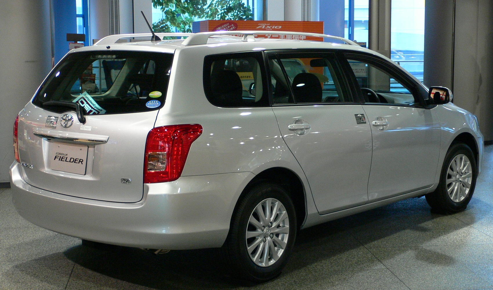 Toyota_Corolla-Fielder(2006) photographed in Showroom of Toyota-AMLUX